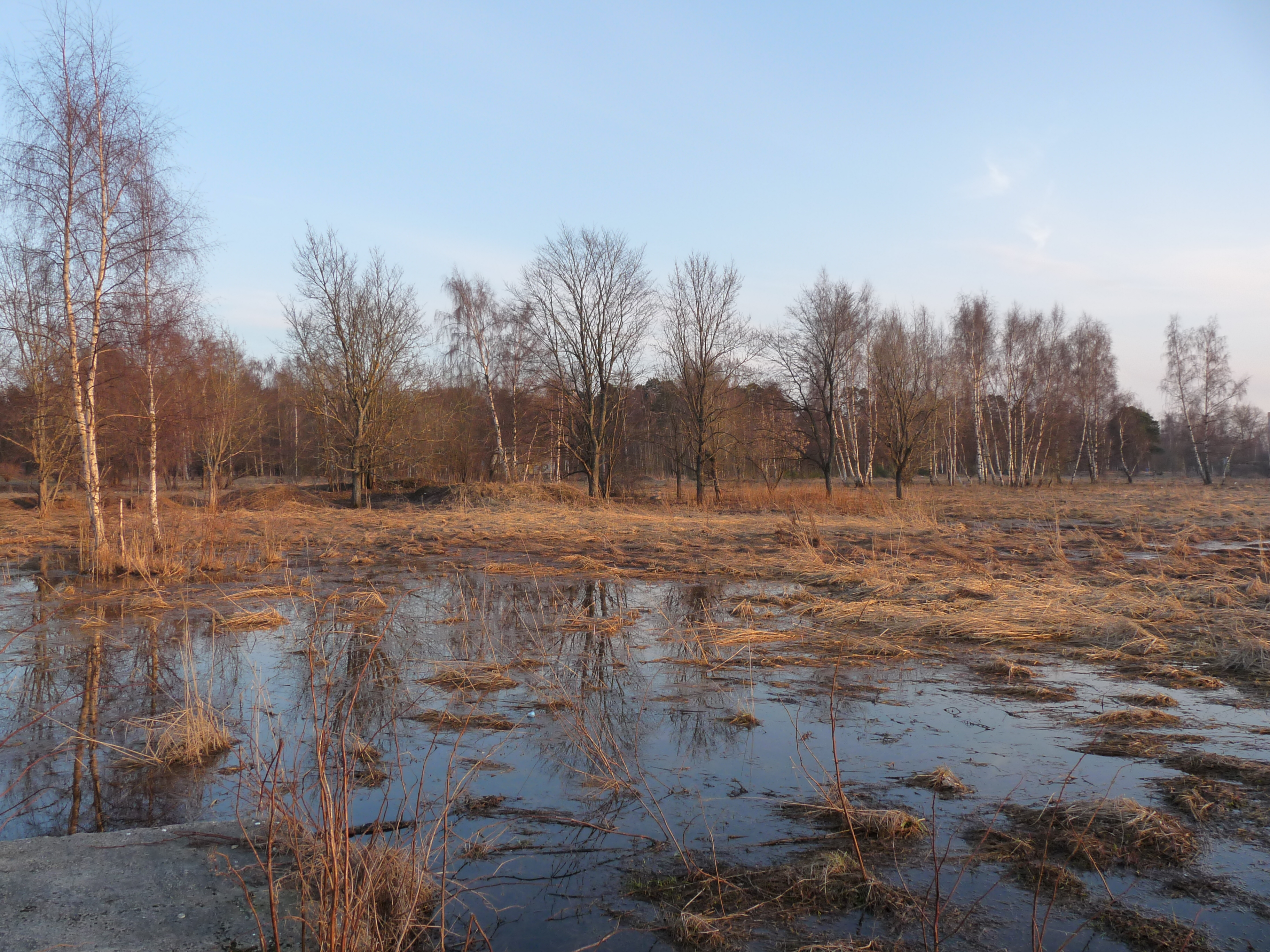 Snow melting in Merimets